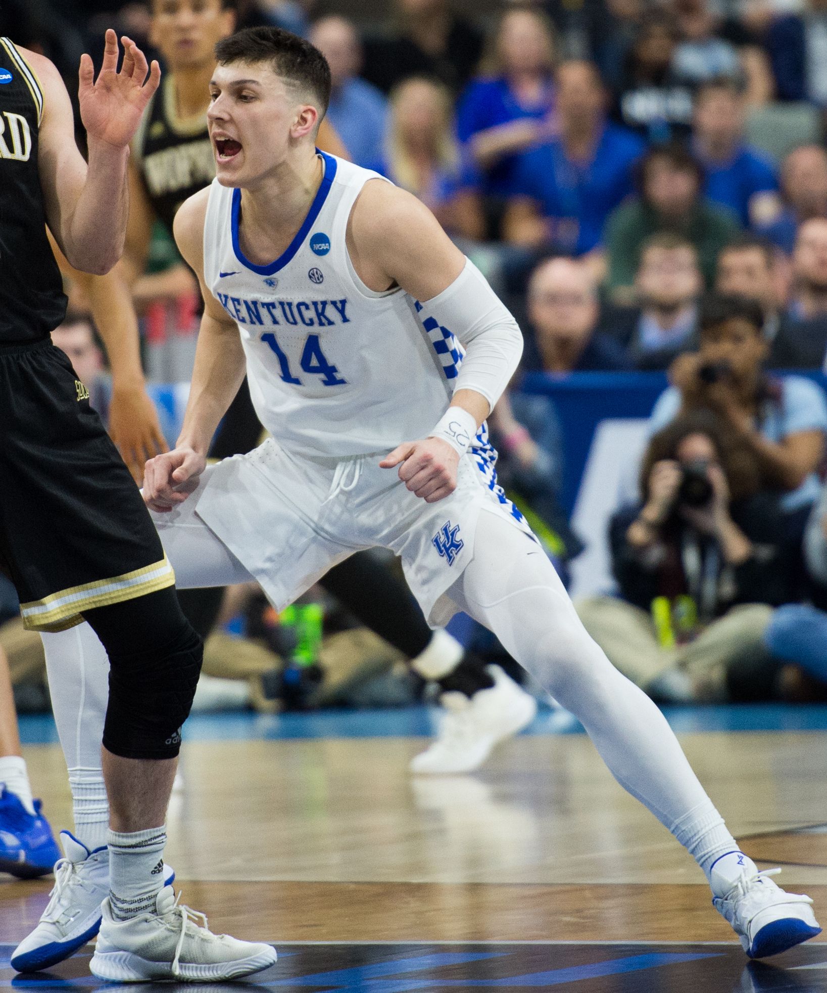 Tyler Herro of Kentucky